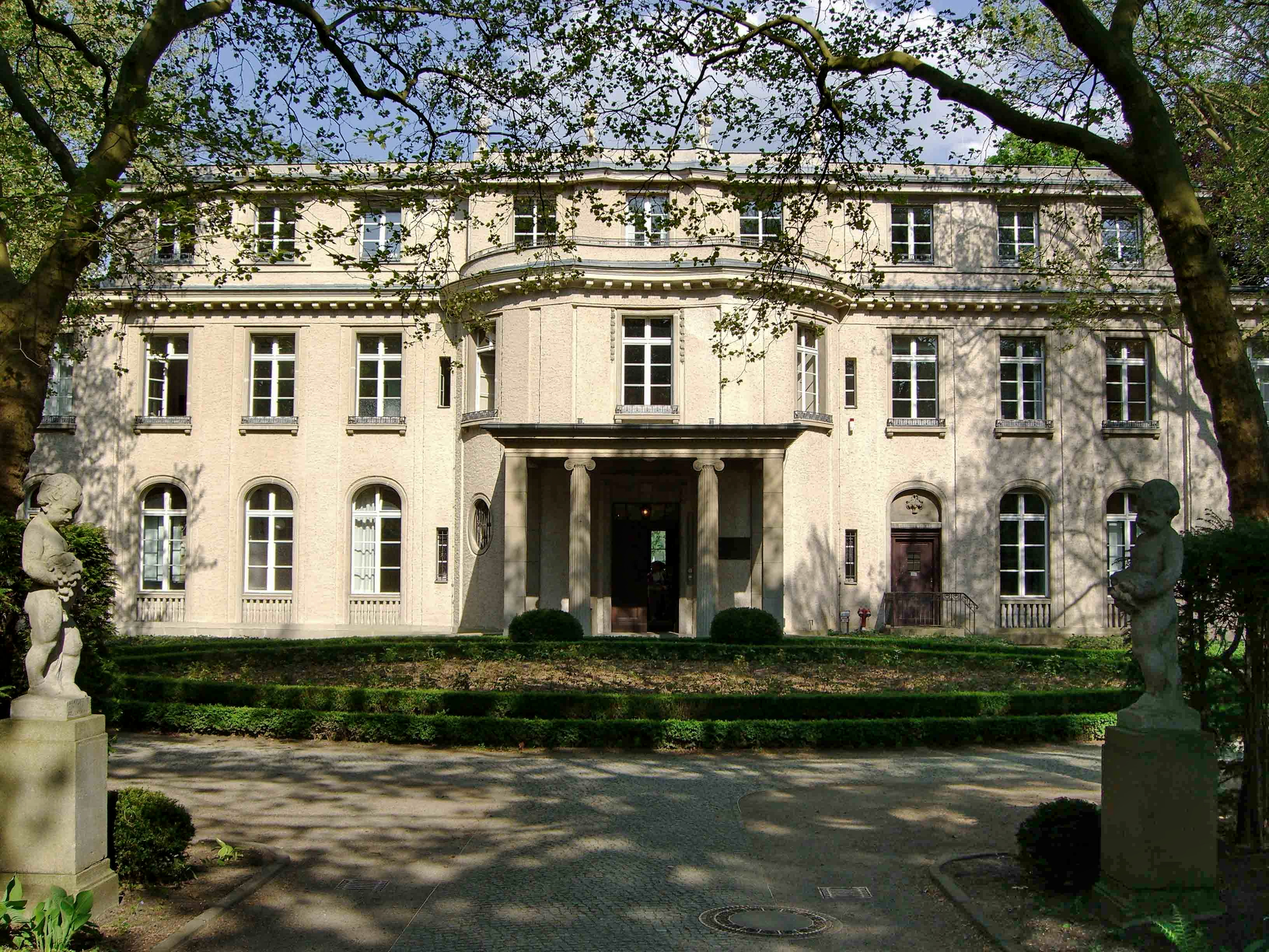 Villa Marlier, Mansion of the "Wannsee-Konferenz"